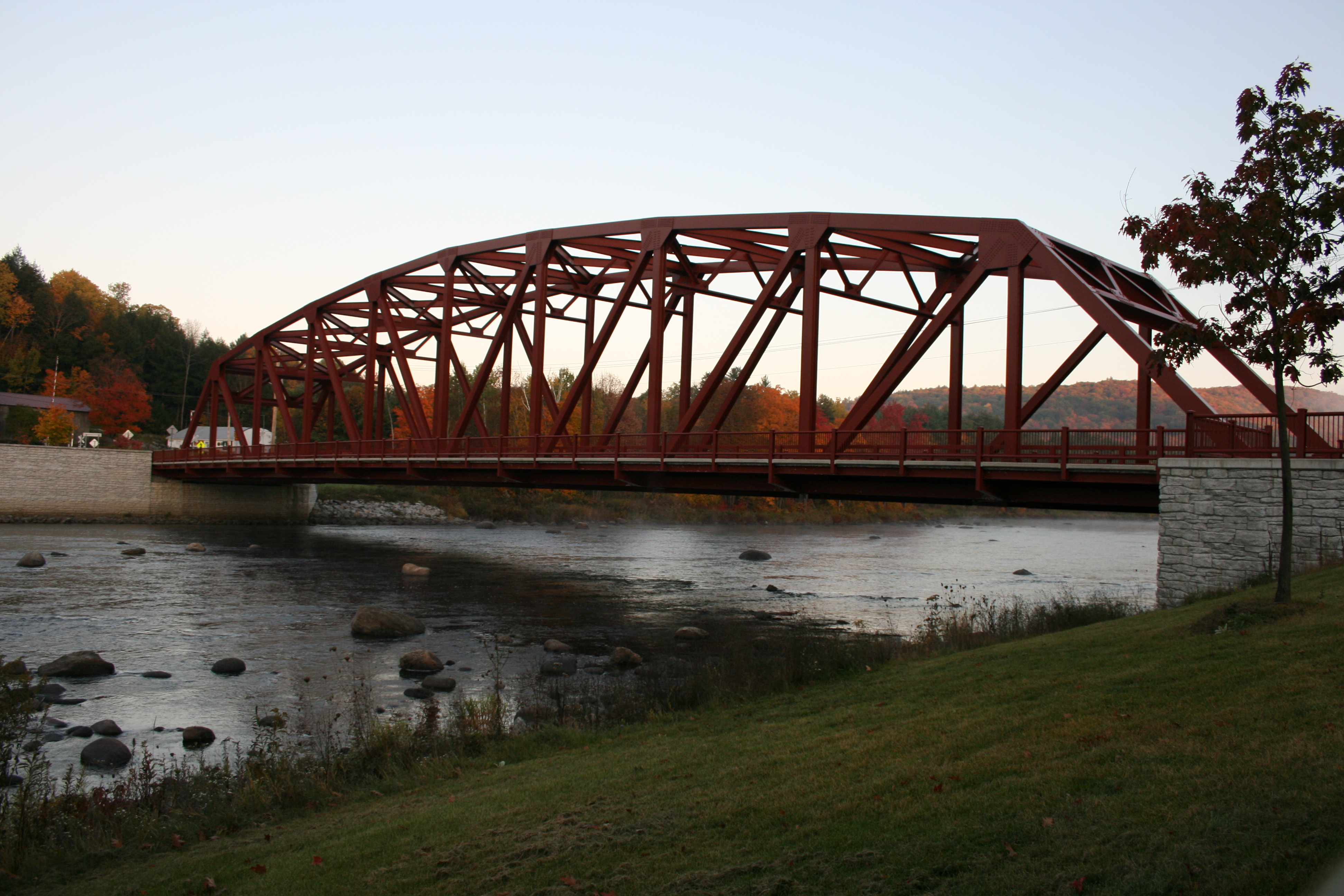 A view of the Riparius Bridge over the Hudson River as viewed from the south on the eastern shore.